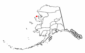 Adapted from Wikipedia's AK borough maps by Seth Ilys.